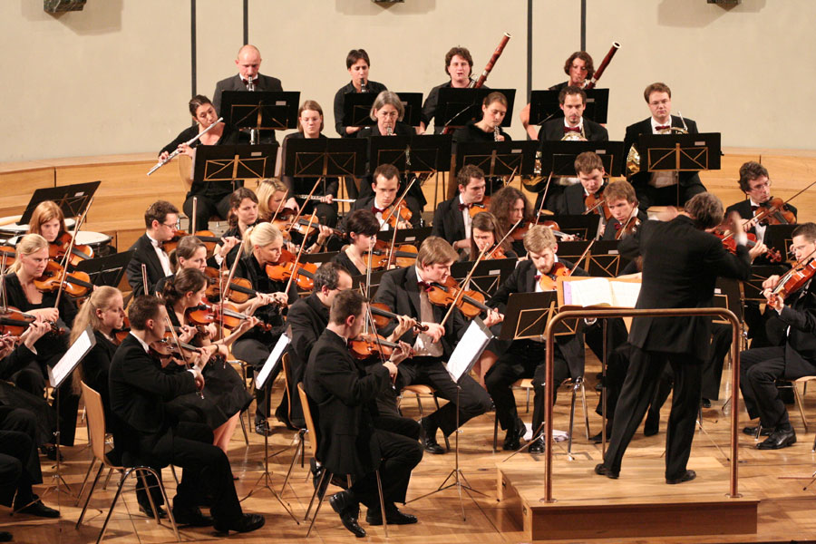 Orchestra of the Munich University of Applied Sciences at a concert in the Great Hall of the Ludwig Maximilian University, Munich